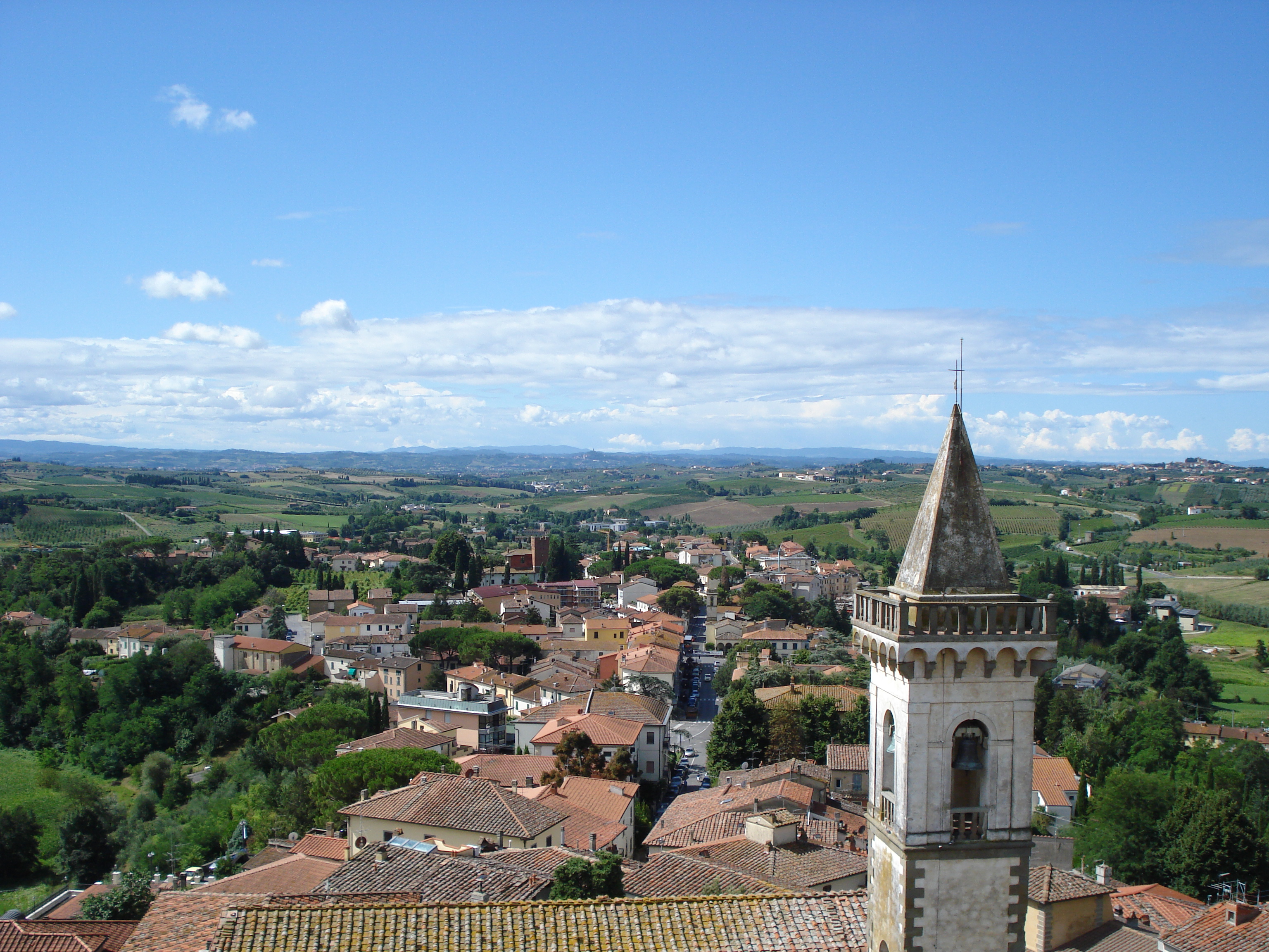 View from the Leonardo da Vinci Museum in Vinci, Tuscany